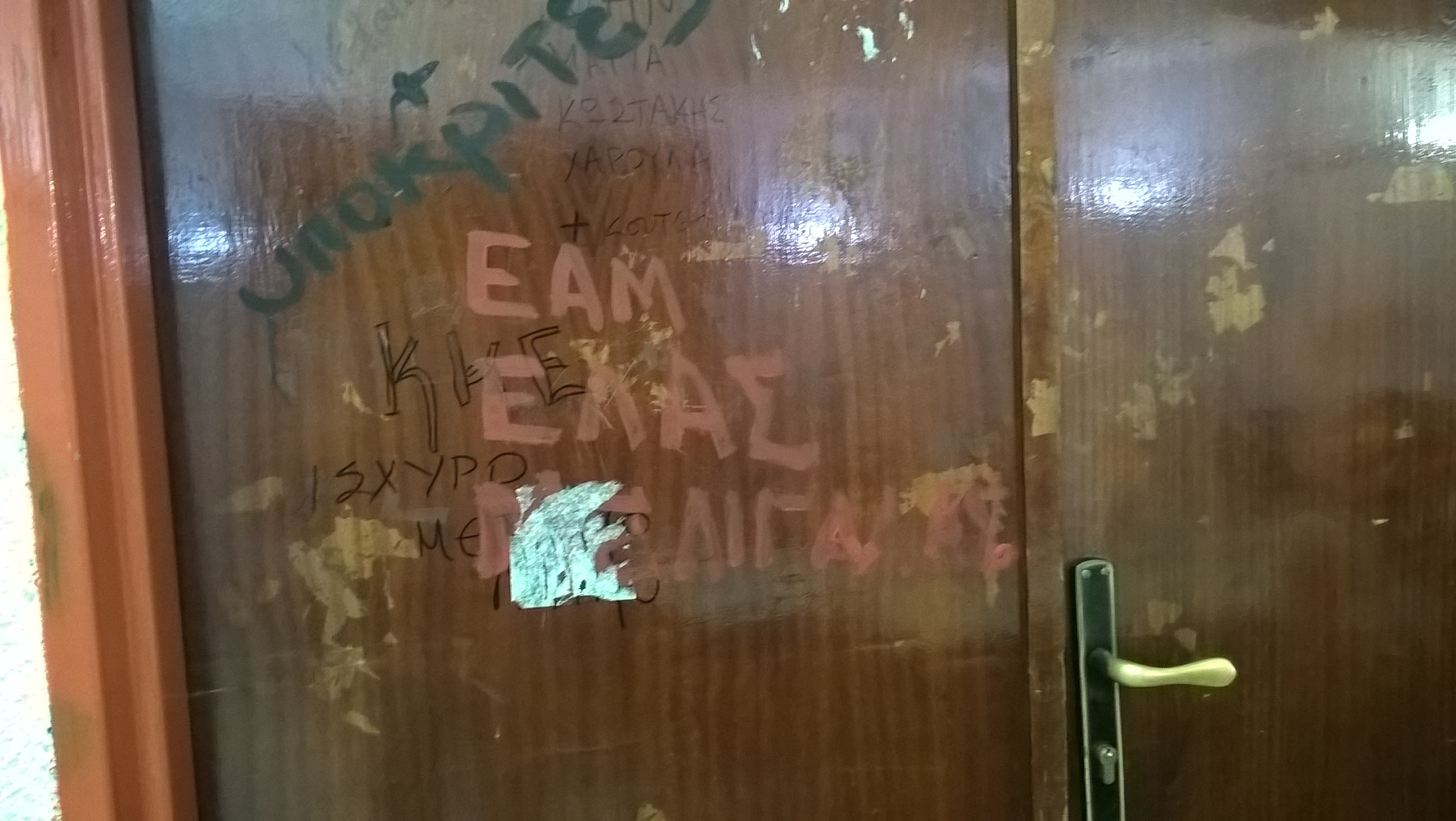 An "EAM-ELAS-Meligalas" graffiti on the door of an auditorium in the Faculty of Philosophy of AUTh.